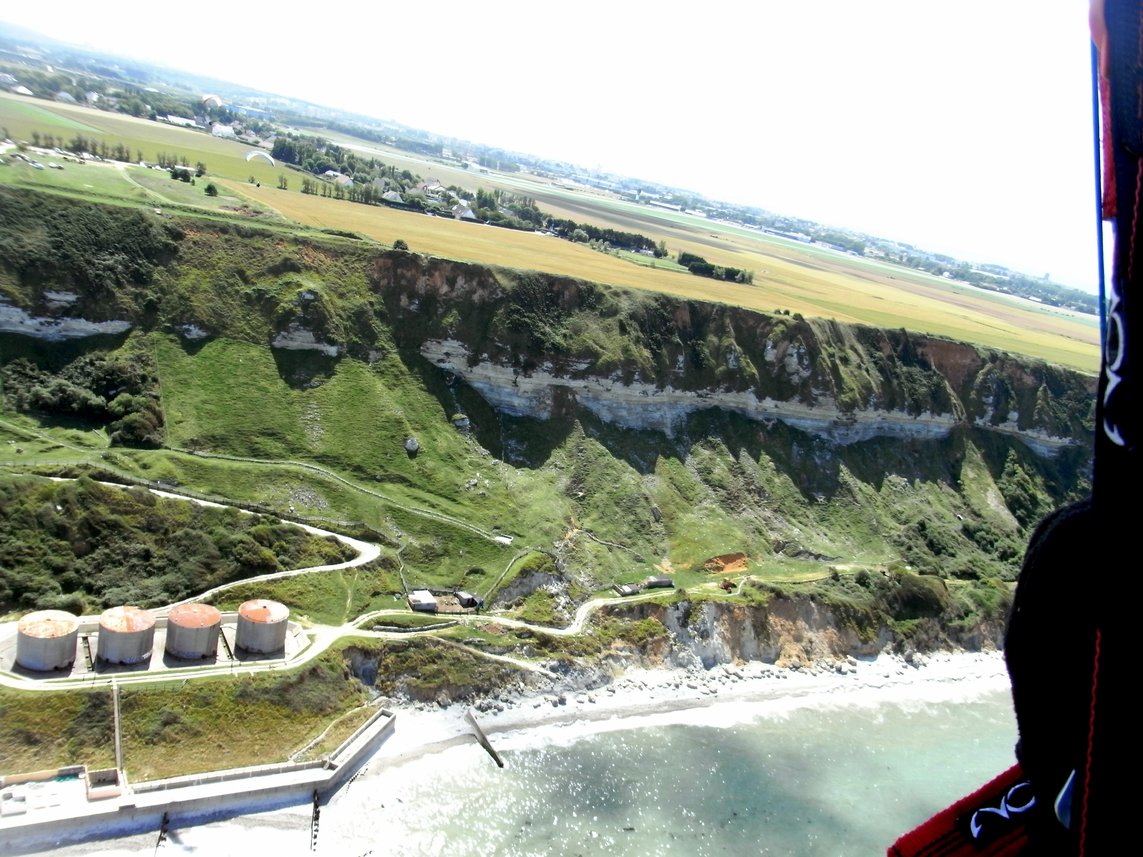 Octeville